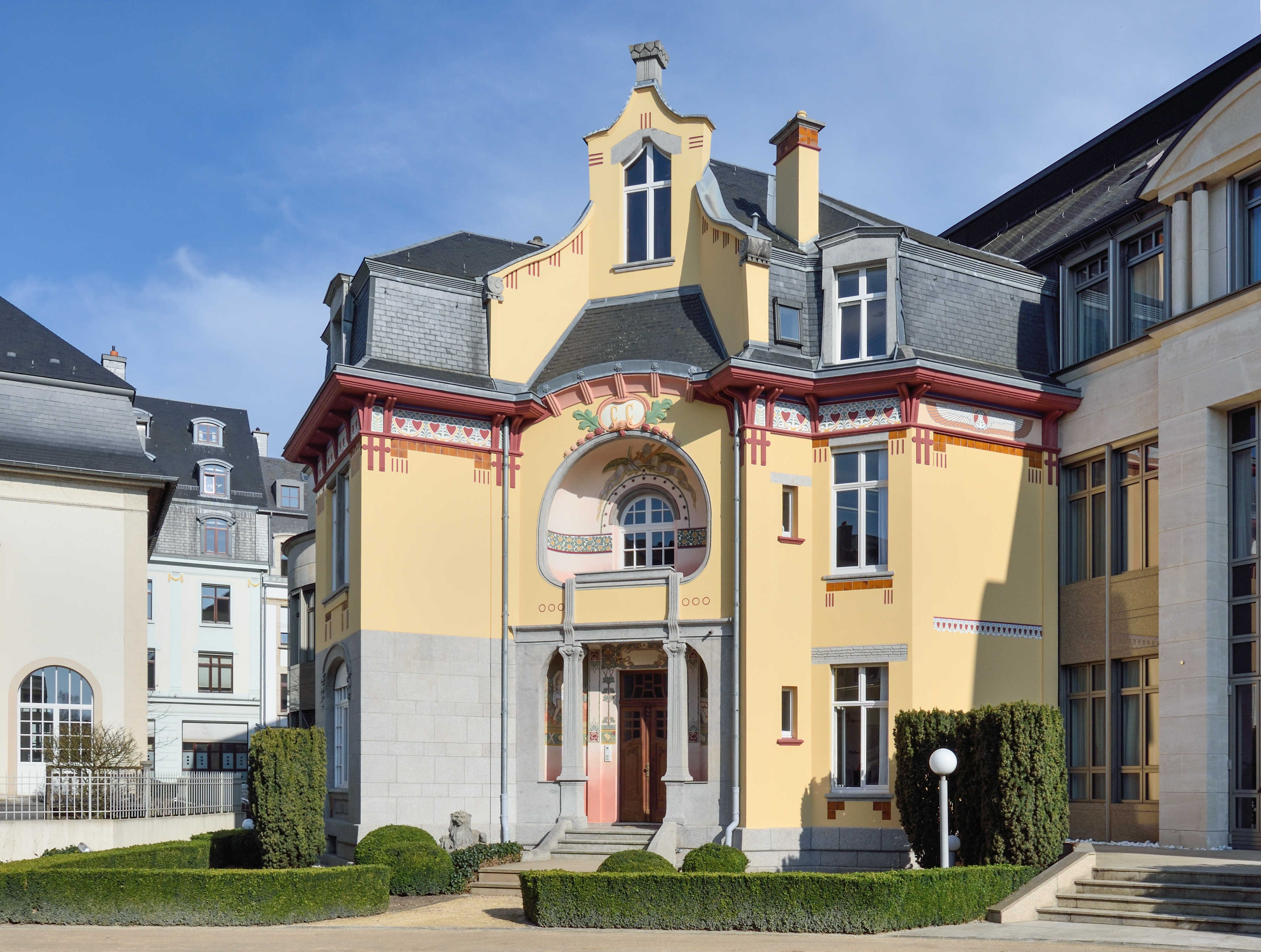 The so-called Villa Clivio in Luxembourg City, rue Goethe.